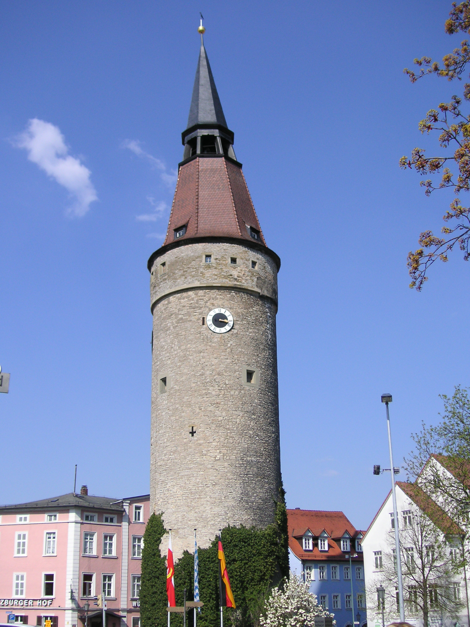 Falterturm in Kitzingen, Germany